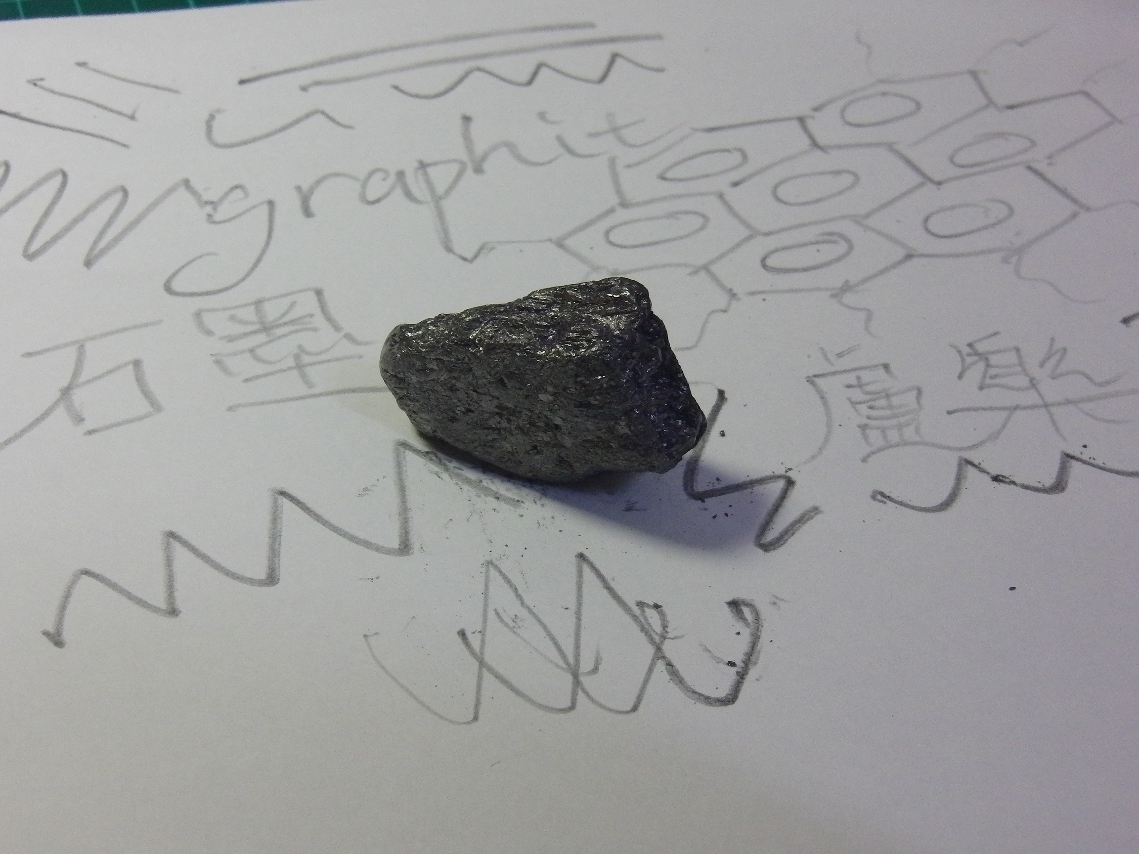 Graphite write